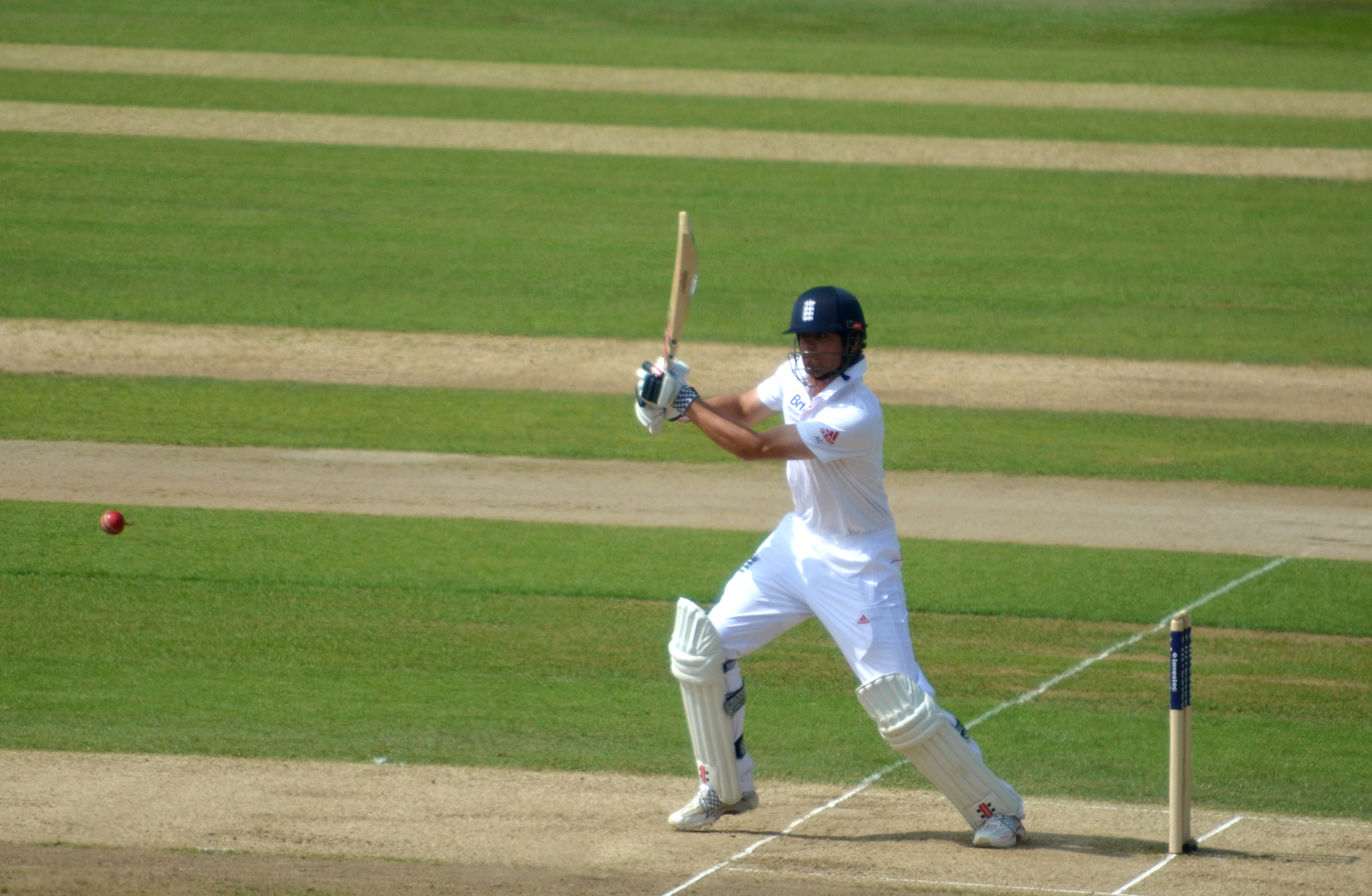 England captain Alistair Cook plays a shot during the 3rd day of the 1st Test of the 2013 England v Australia Ashes series at Trent Bridge, Nottingham.